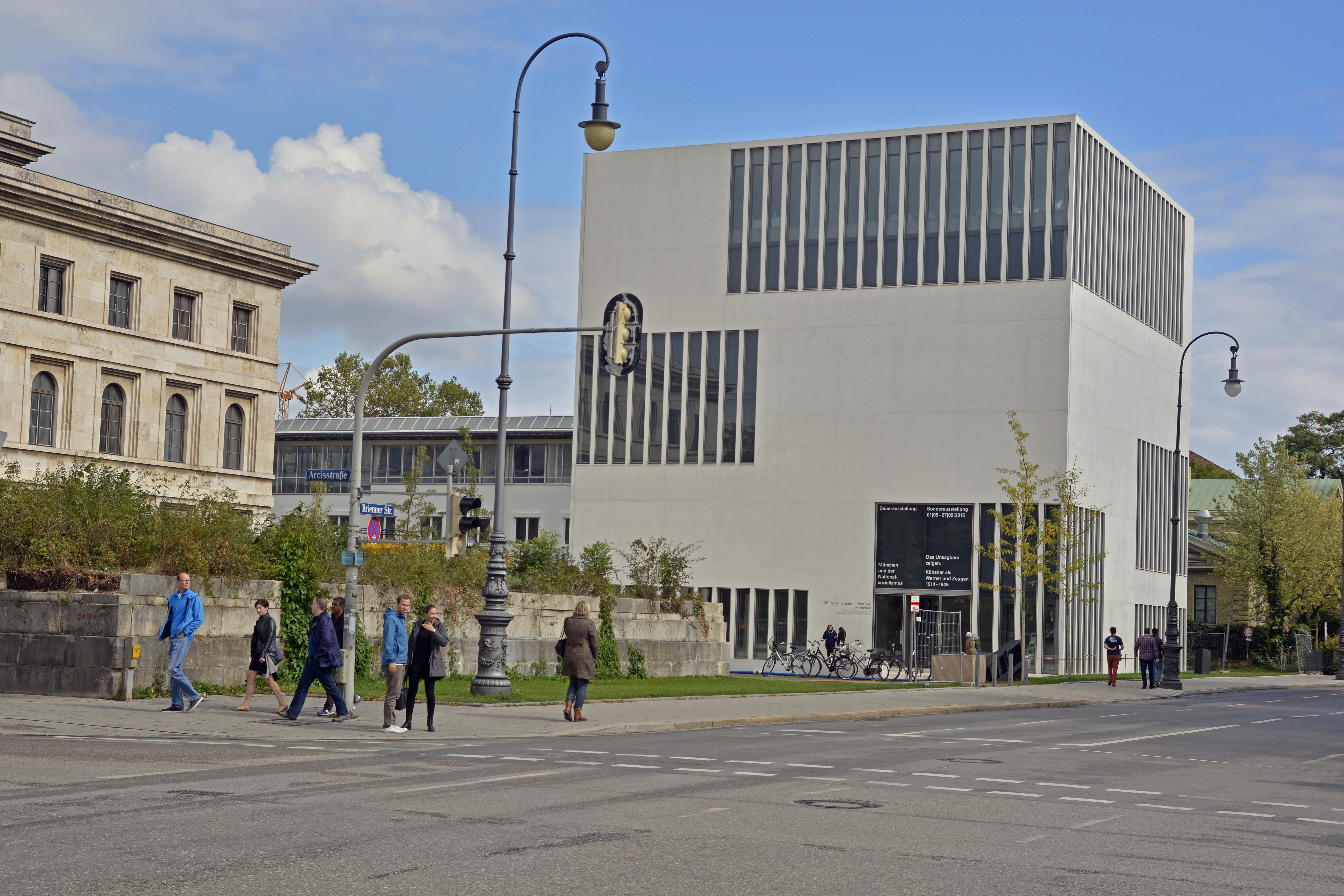 NS-Center of Documentation Munich